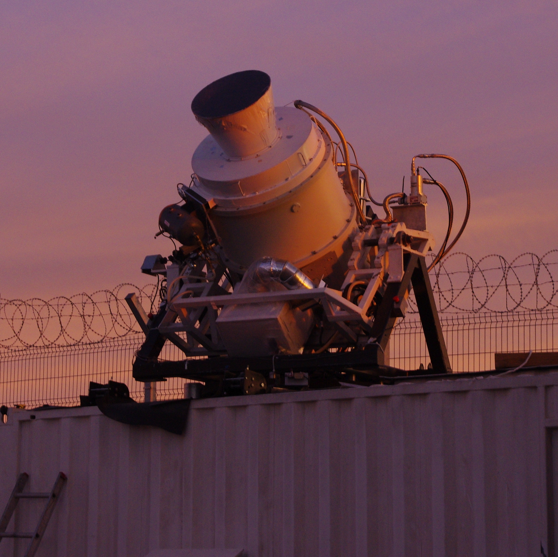 Photograph of the Atacama B-Mode Search Telescope.